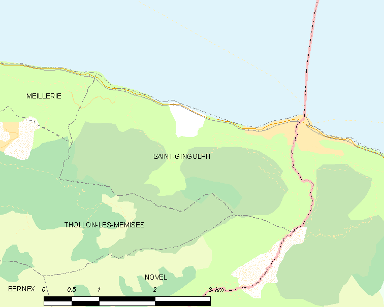 Map of French municipality Saint-Gingolph